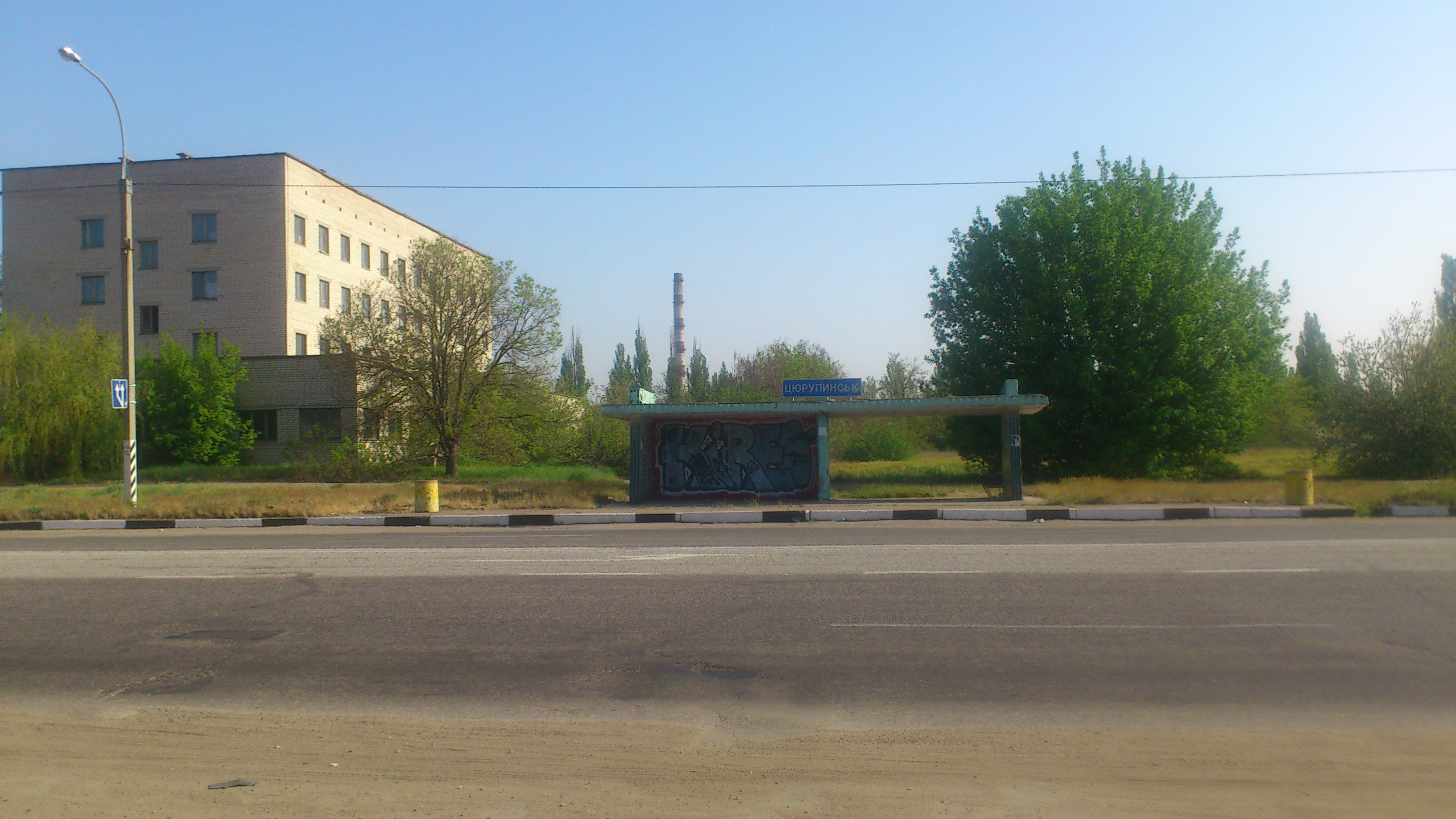 Bus stop on the route Kherson-Mykolaiv near Oleshky